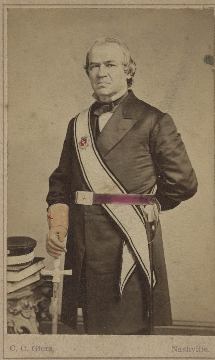 Photograph of U.S. President Andrew Johnson in Masonic regalia